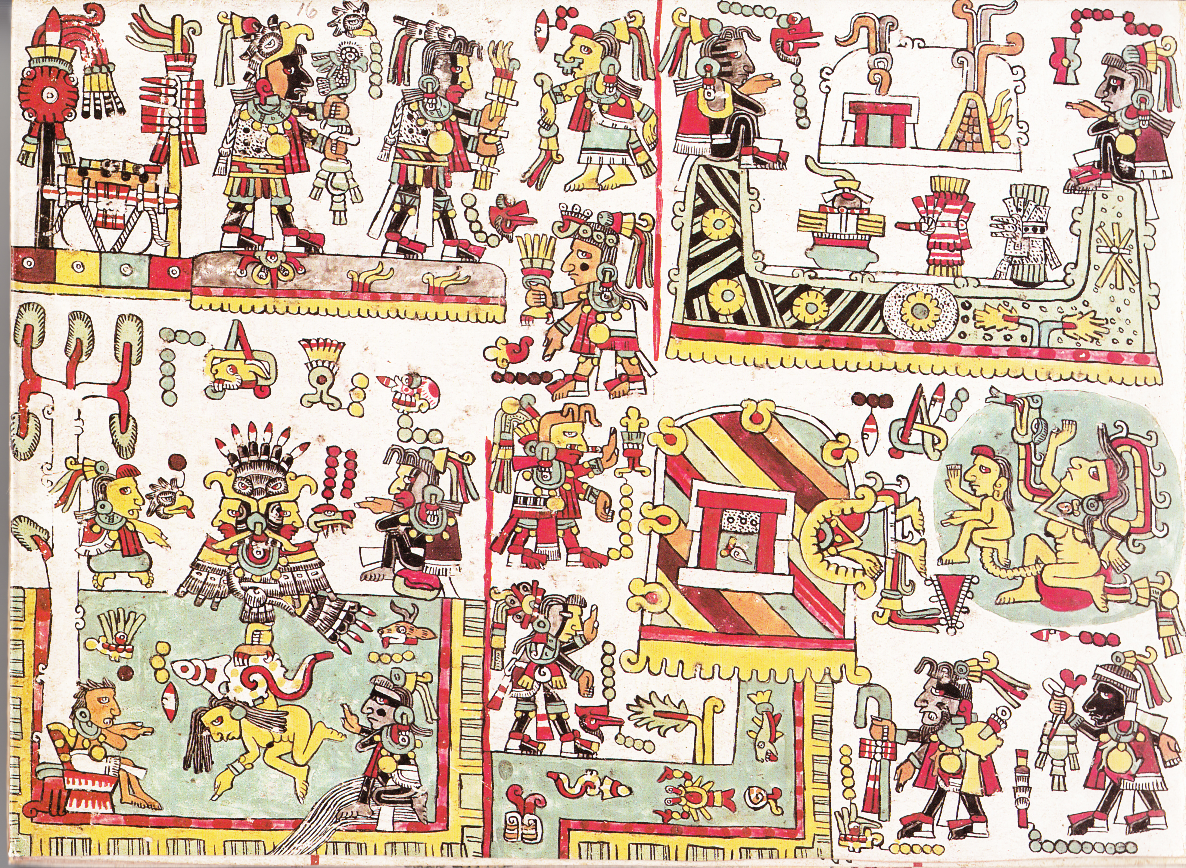 Codex Nuttall p. 16